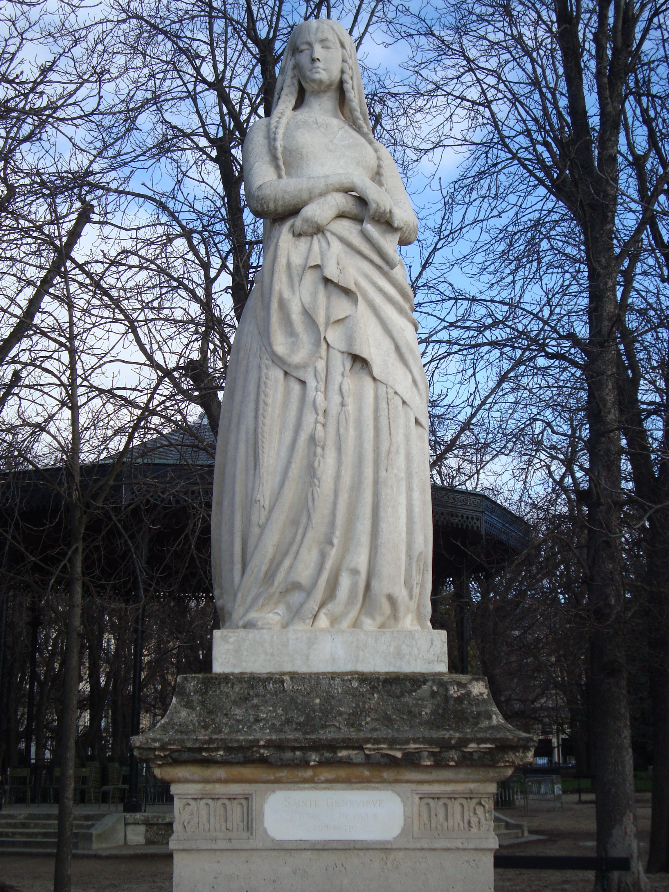 Statue of Sainte Geneviève (1845), by Michel-Louis Victor Mercier, in the jardin du Luxembourg, Paris